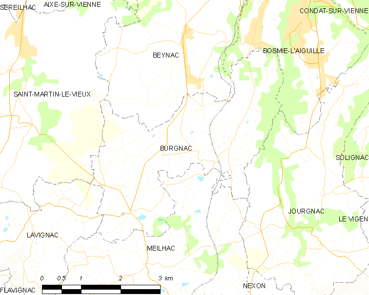 Map of French municipality Burgnac